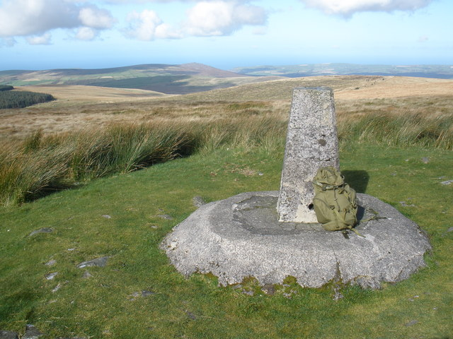 Summit of Foel Cwmcerwyn At 1,760 feet above sea level, the highest point in Pembrokeshire. Looking towards the north, with the Irish Sea visible in the distance.